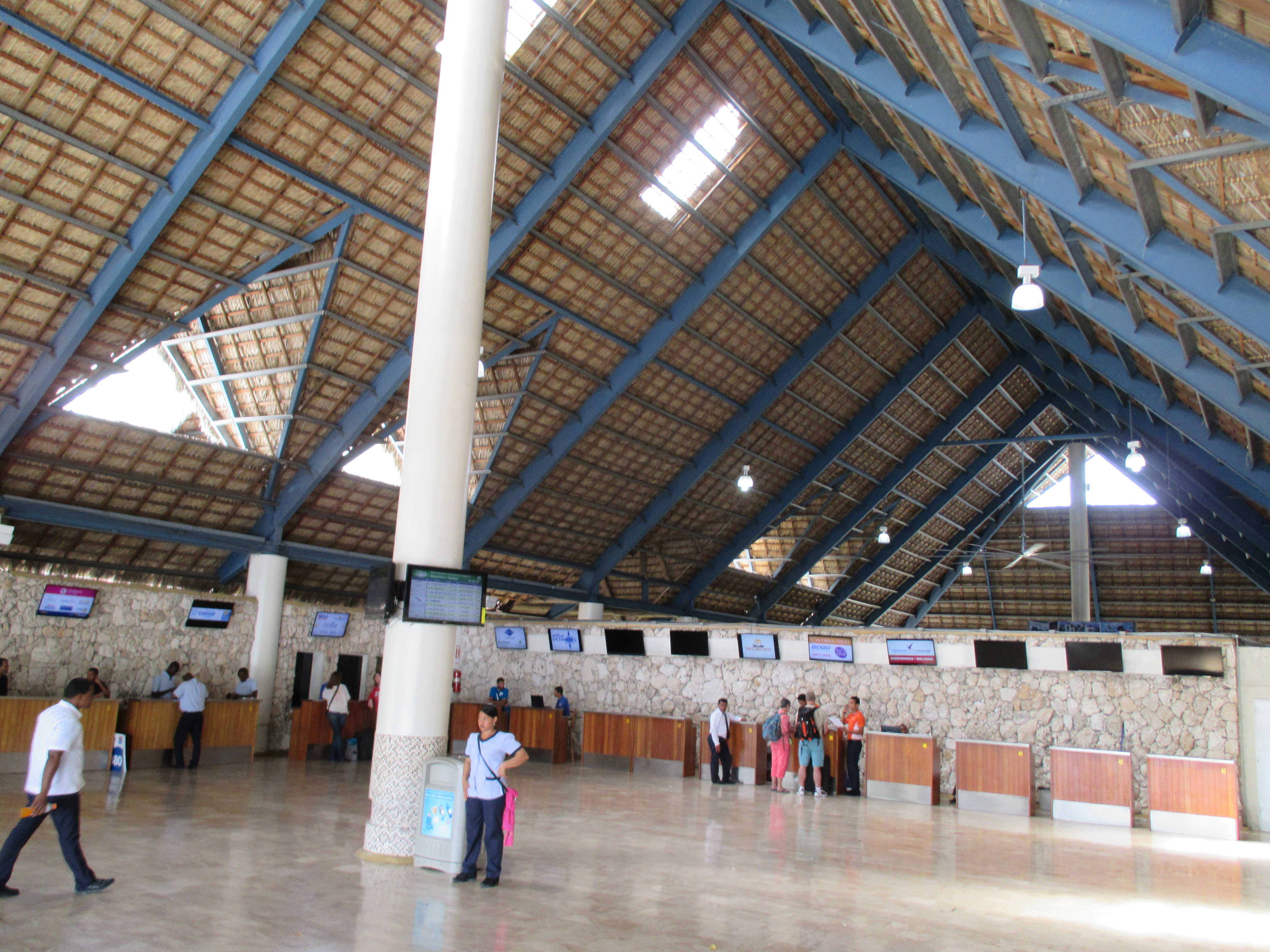 inside